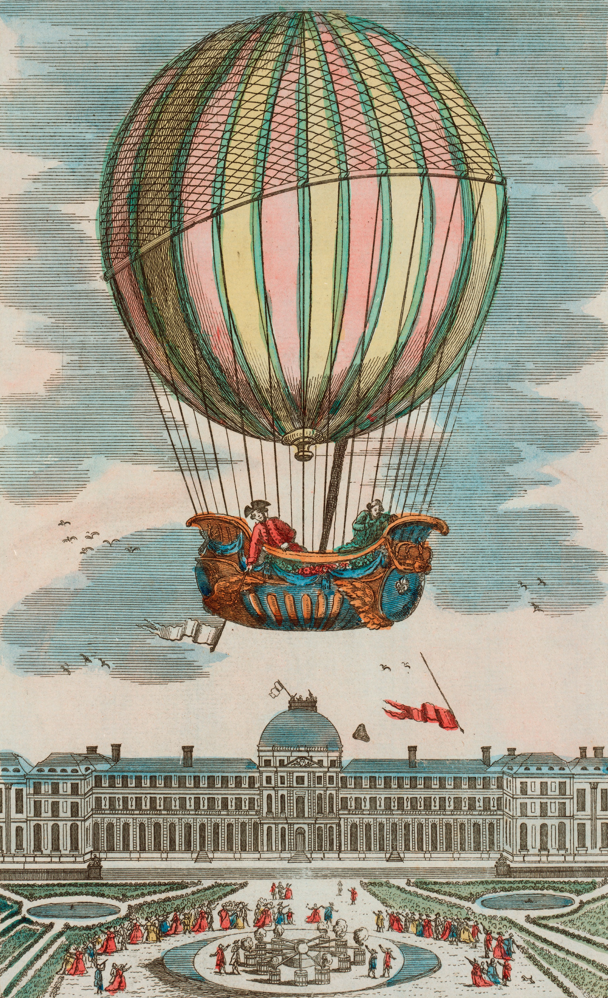 Print showing Jacques Alexandre César Charles and Nicolas-Louis Robert riding in the gondola of a balloon ascending from the Tuileries Garden, Paris, France, December 1, 1783 in the first hydrogen balloon flight.